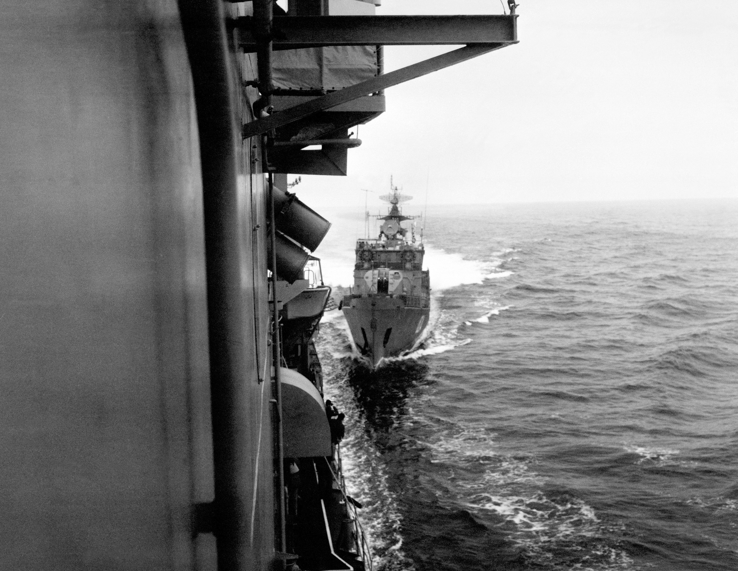 A Soviet Mirka I class light frigate SKR-6 (FFL 824) approaches the destroyer USS CARON (DD 970) as it prepares to strike the American vessel. The CARON is exercising the right of free passage through the Soviet-claimed 12-mile territorial waters.